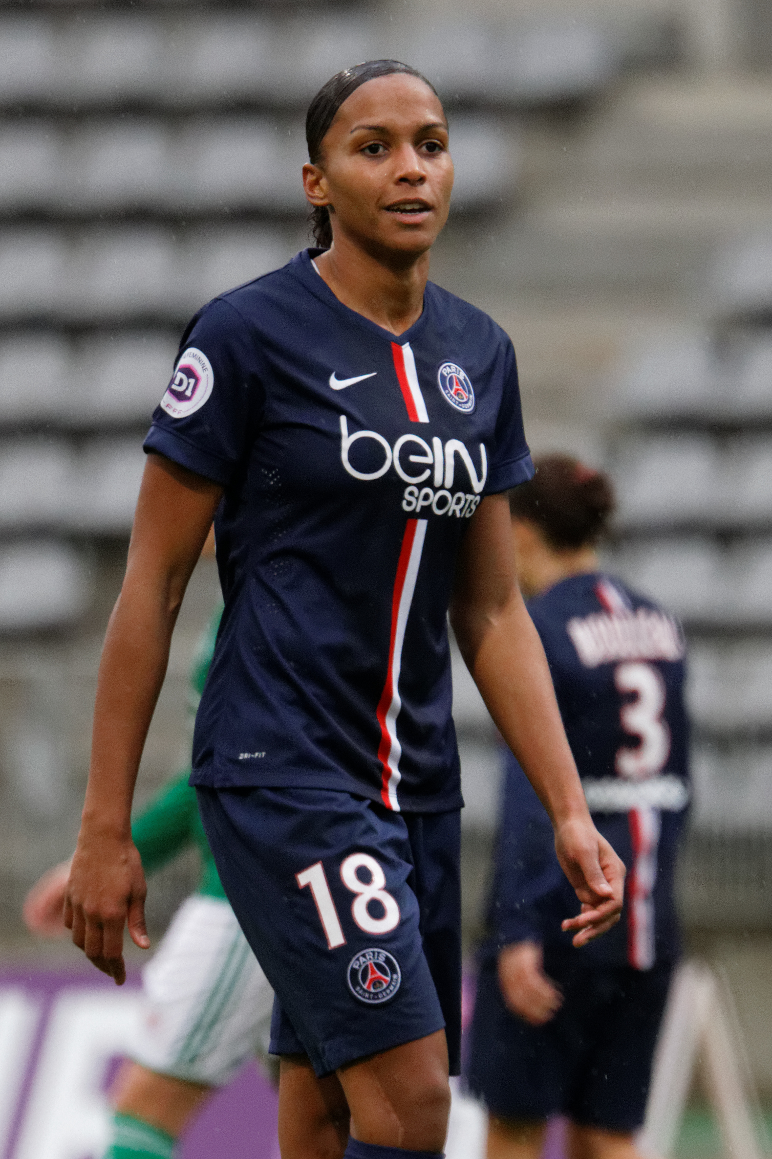 D1, PSG vs Saint-Étienne, 16 November 2014.